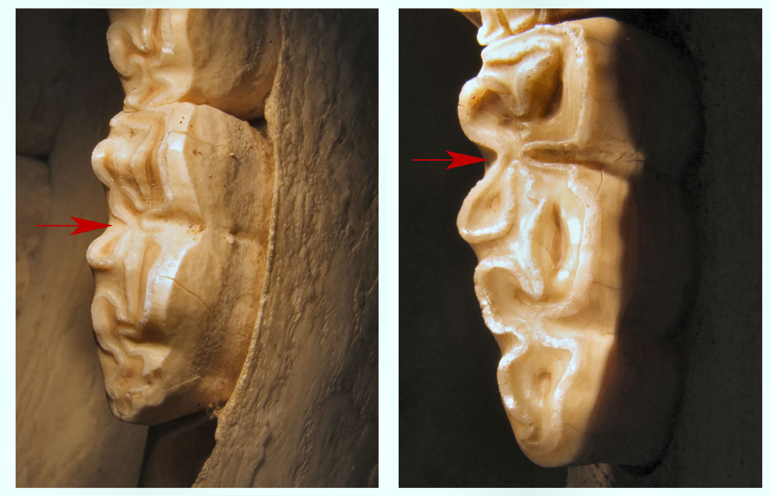 Lower molar of the genus Equus: left E. a. asinus (stenonid), right E. f. caballus (caballoid)